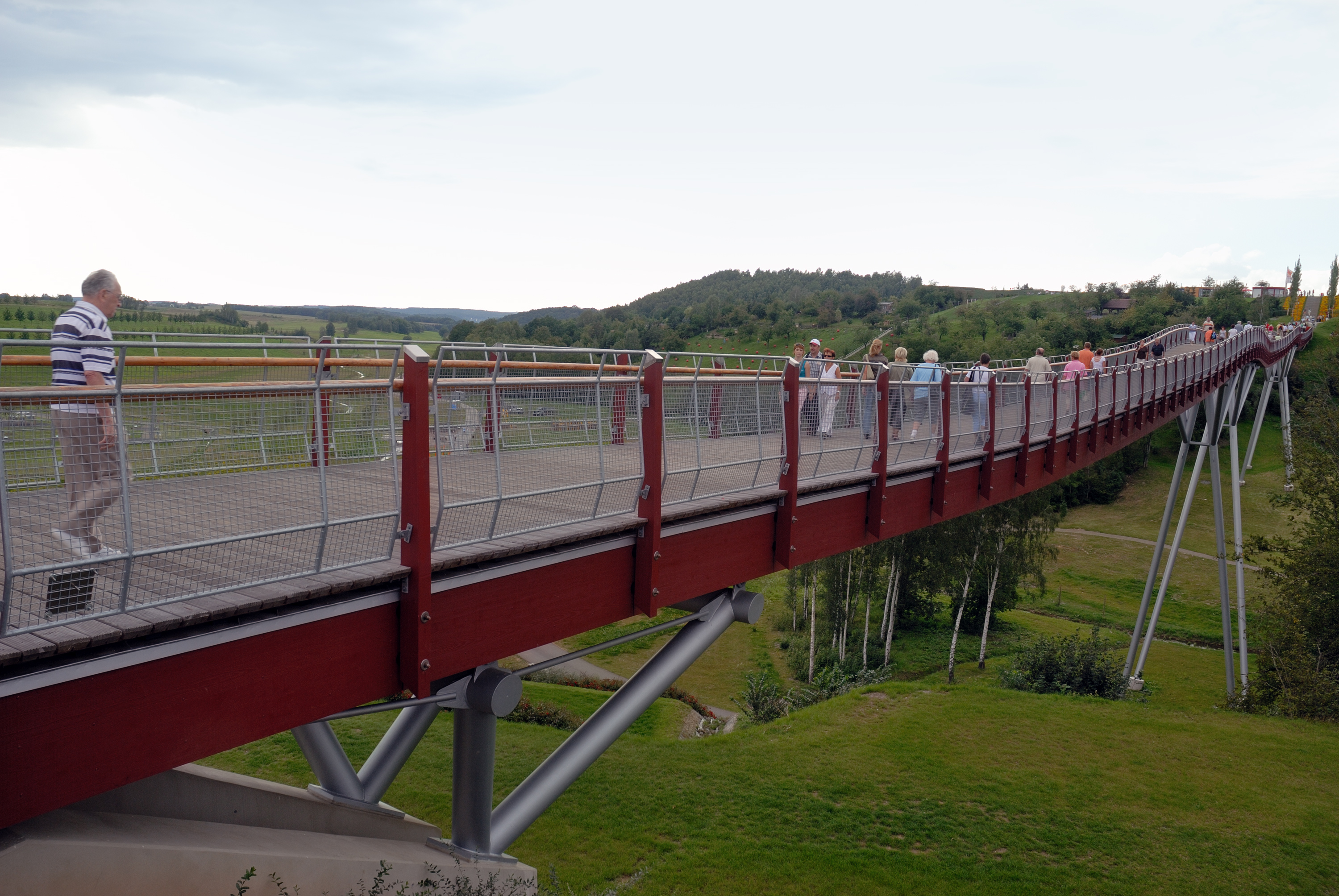 This image shows the bridge "Drachenschwanz" (dragon tail) in the "Neue Landschaft Ronneburg", Germany.